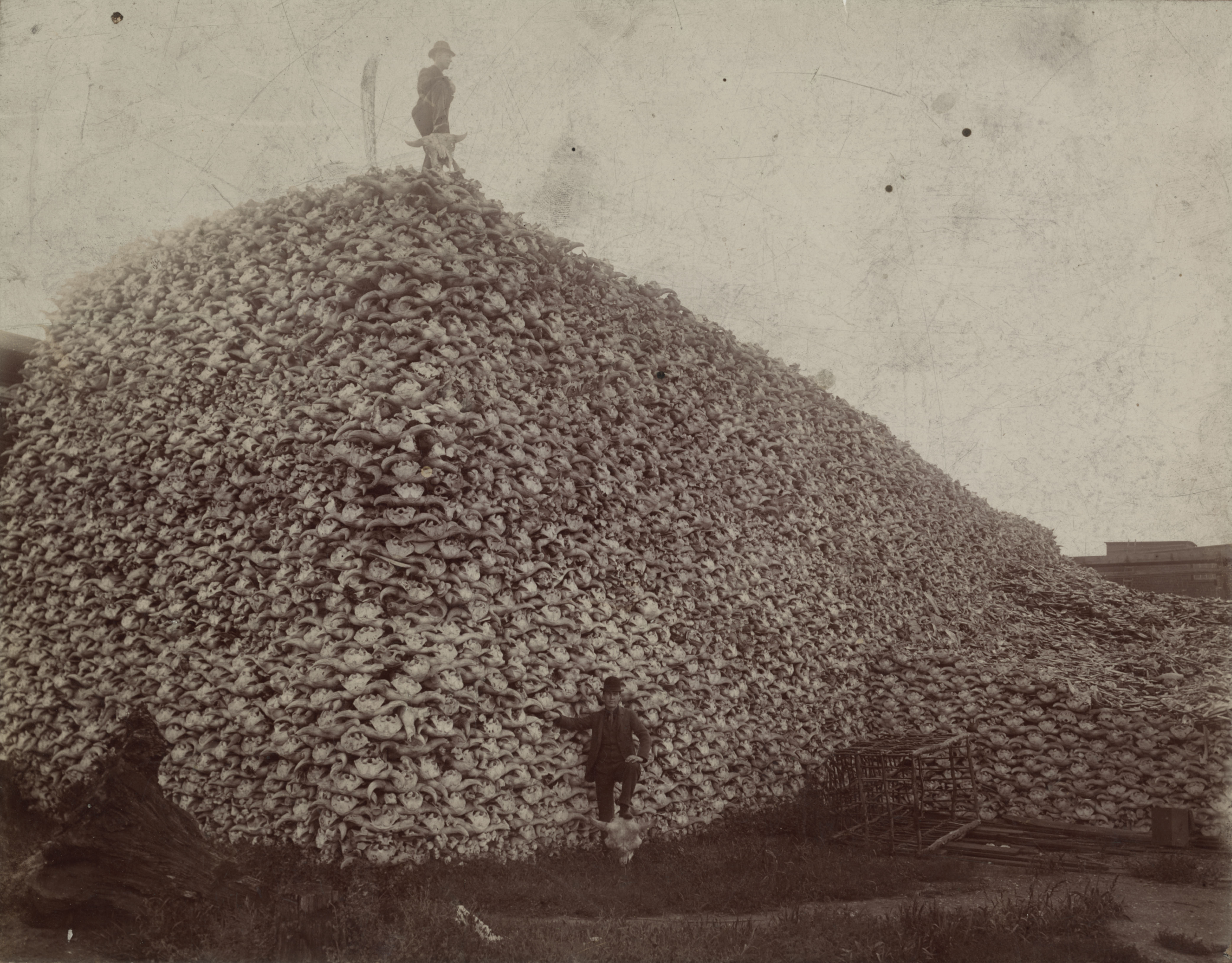 1892: bison skulls await industrial processing at Michigan Carbon Works in Rogueville (a suburb of Detroit). Bones were used processed to be used for glue, fertilizer, dye/tint/ink, or were burned to create "bone char" which was an important component for sugar refining.